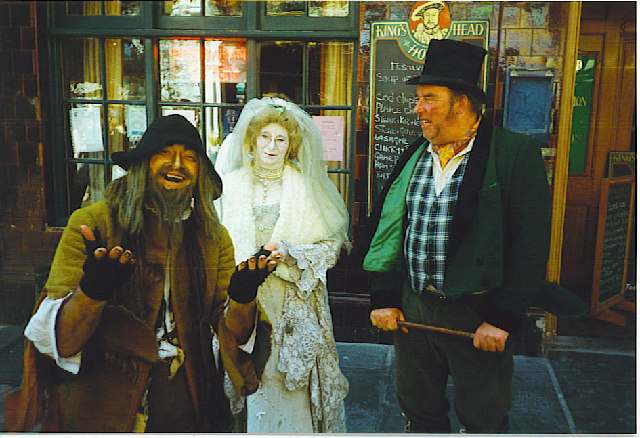 Dickens Festival, Rochester. Charles Dickens lived in Rochester and set many scenes from his books here. Fagin, Miss Havisham and Bill Sikes are outside the Kings Head.